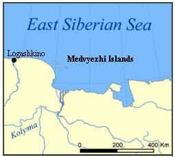 Location of the Medvyezhi Islands in the East Siberian Sea.